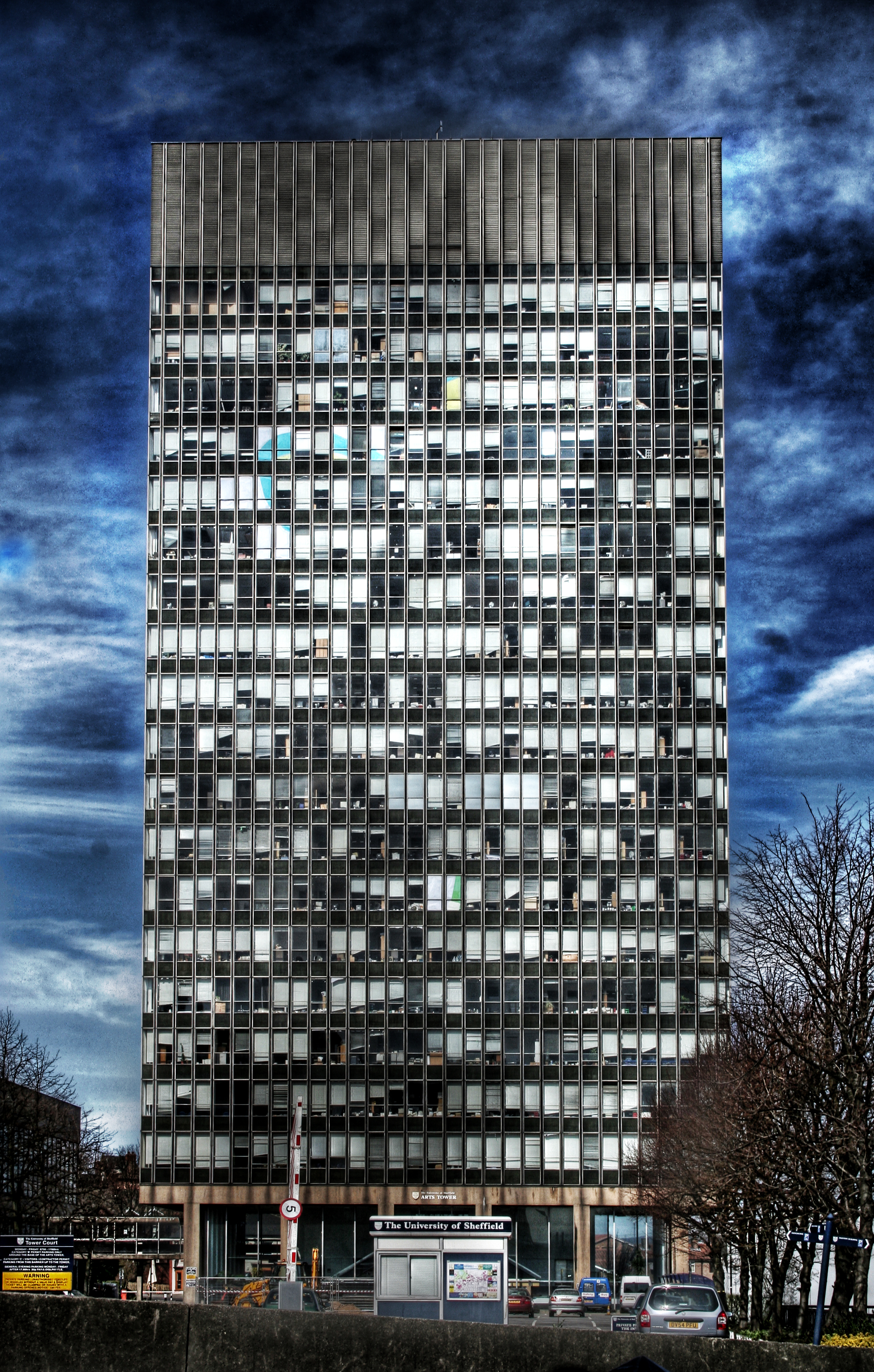 The Arts Tower is a building in Sheffield, England that is part of the University of Sheffield. At 255 feet (78 m) tall it is the tallest building in the city, just slightly taller than the 250 foot (76 m) Royal Hallamshire Hospital nearby. It is also the tallest university building in the UK. Designed by architects Gollins, Melvin, Ward & Partners, construction of the tower started in 1961 and lasted four years. The design was inspired by the Seagram Building in New York City, although the Arts Tower is roughly half the size. Entry to the building was originally made by a wide 'bridge' between fountains over a shallow pool area in front of the building. This pool was eventually drained and covered over when it was found that strong down drafts of wind hitting the building on gusty days caused the fountain to soak people entering and exiting the building. An alternative design for a rotunda-styled cylindrical building was thrown out when suitable curved furnishings were costed. The building was officially opened by Queen Elizabeth, The Queen Mother in 1965, it has 20 stories and a mezzanine level above ground. Circulation is through two ordinary lifts and a paternoster lift, one of only a few in the country (source: wikipedia) sheffield, england